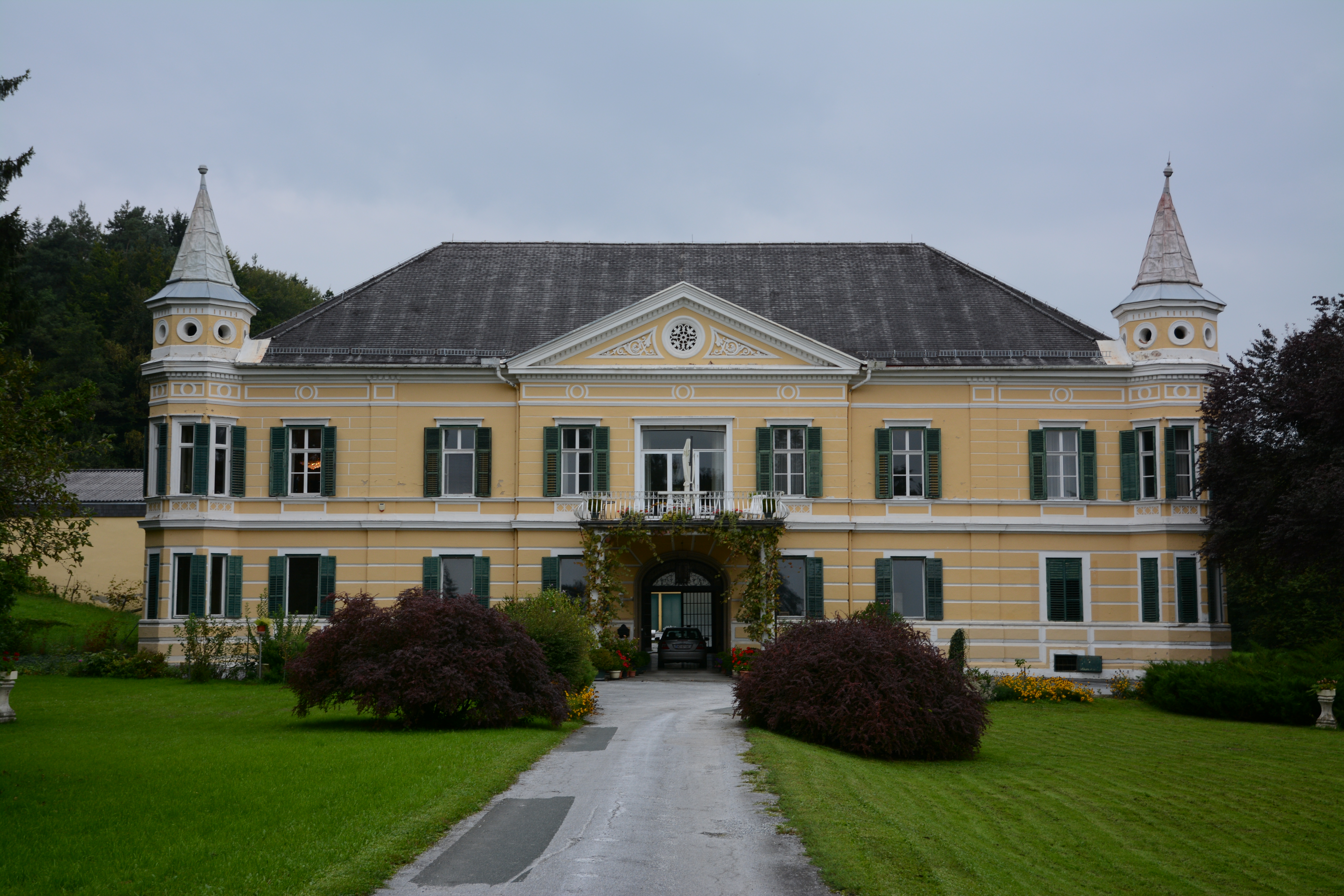 Schloss Uhlheim